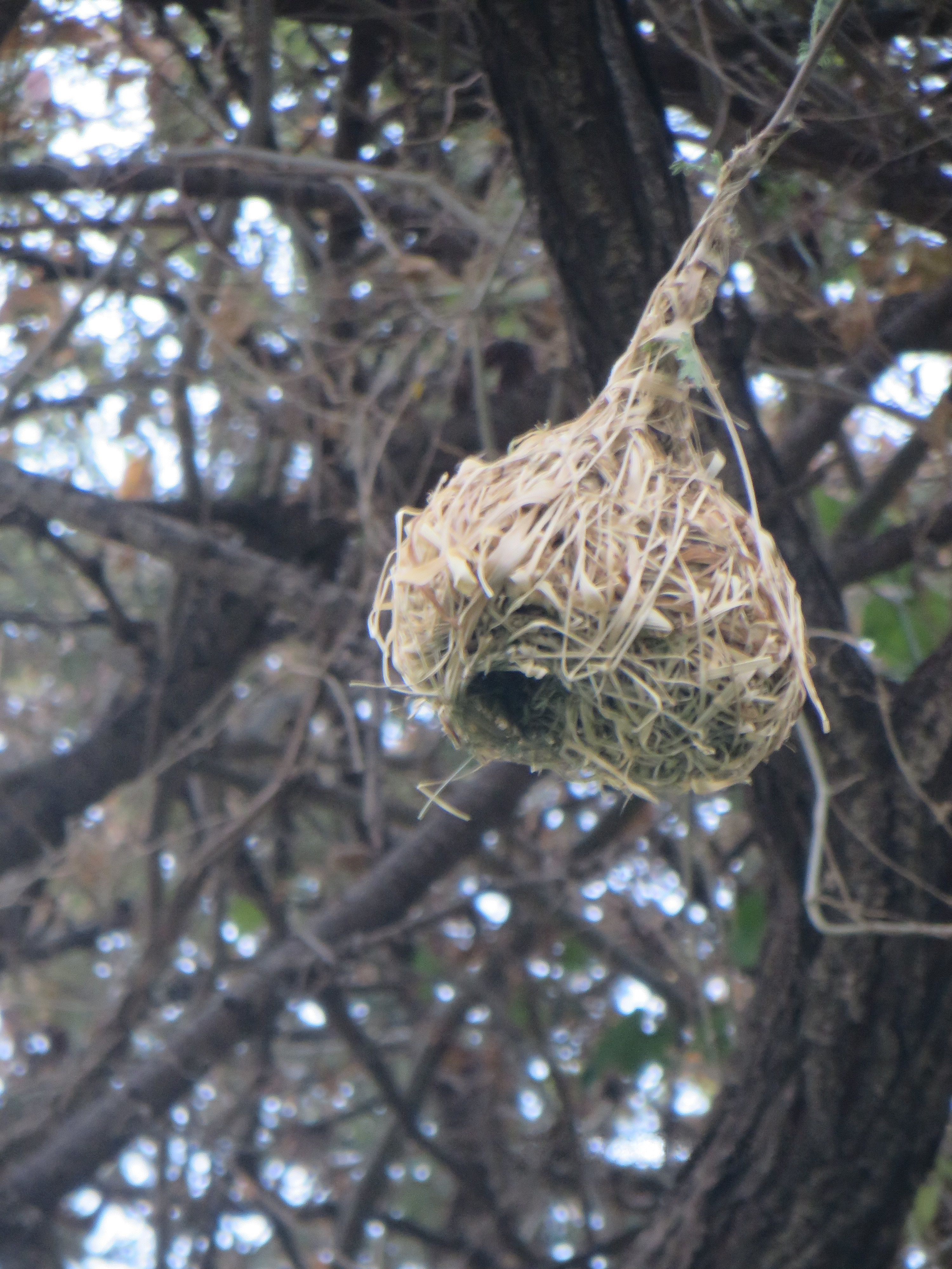 A detail of the nest of weaver birds hanging from a tree.